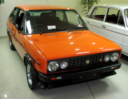 Fiat 131 Racing 2000/TC (1978-1983)